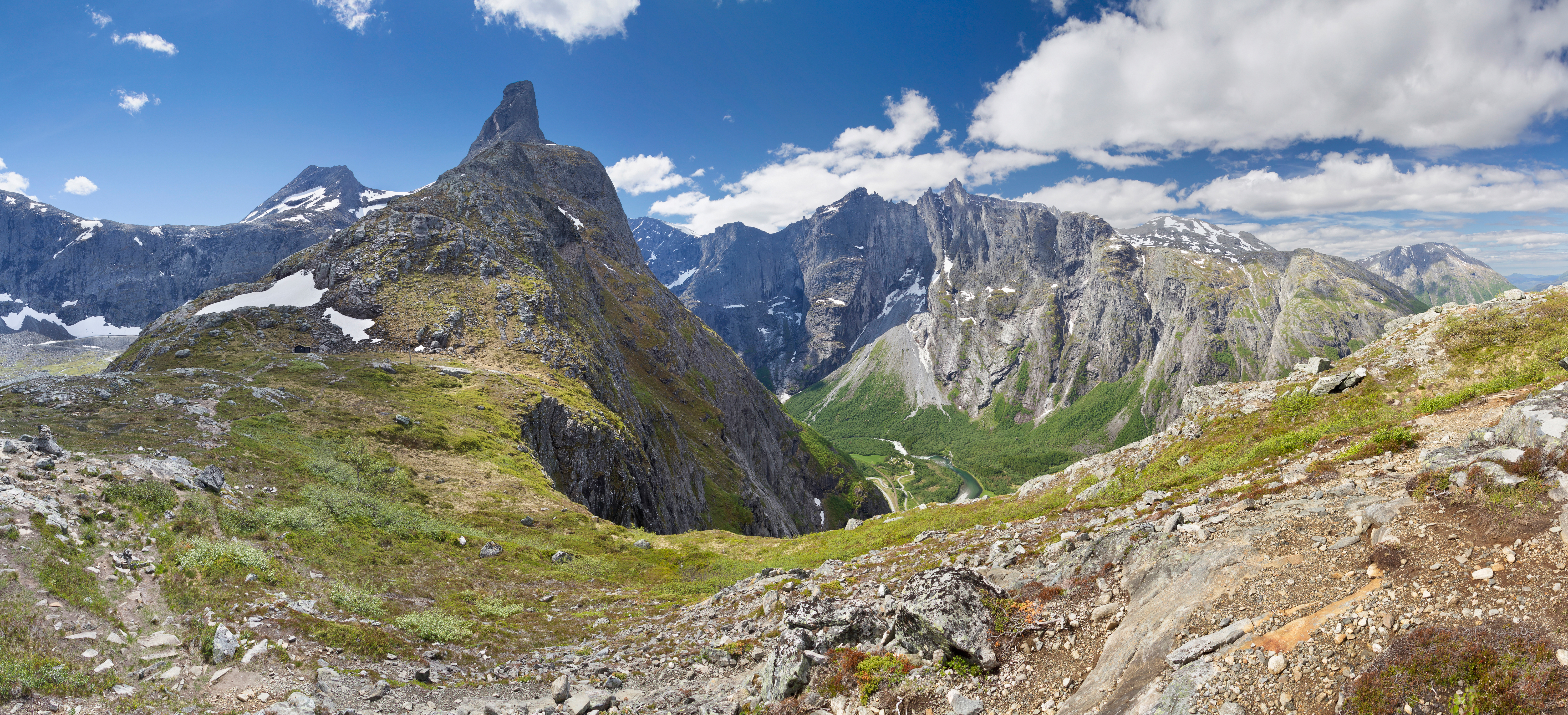 A view towards Romsdalen and Romsdalshornet from the Litlefjellet ridge between Romsdalen and Vengedalen, Møre og Romsdal, Norway in 2013 June. Trolltindane mountain range with its famous vertical rock face Trollveggen is on the other side of the valley.